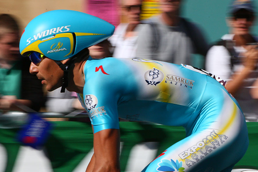 During the stage 11 TT